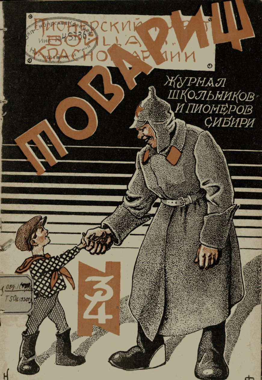 Sibirsky Detsky Zhurnal (Siberian Children's Journal) is a magazine published in Novosibirsk in 1928-1931. It was later renamed the Tovarishch ("Comrade").